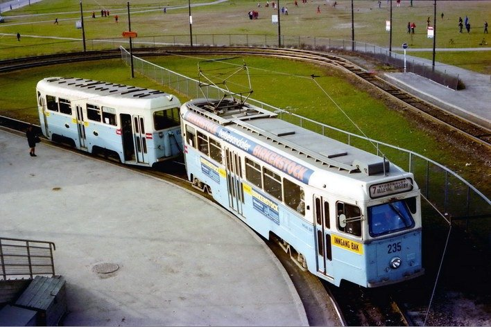 Oslo Sporveier SM53 no. 256 tram and trailer 653 at the loop at Muselunden on the Sinsen LineNorsk bokmål: Oslo Sporveier. Trikk motorvogn 235 type Høka MBO og tilhenger 653 type TO linje 7, konduktør på vei til trikken. Endesløyfa til Sinsentrikken. Muselunden. (Linje 7 til Ullevål Hageby fra Sinsen etablert 1961.)